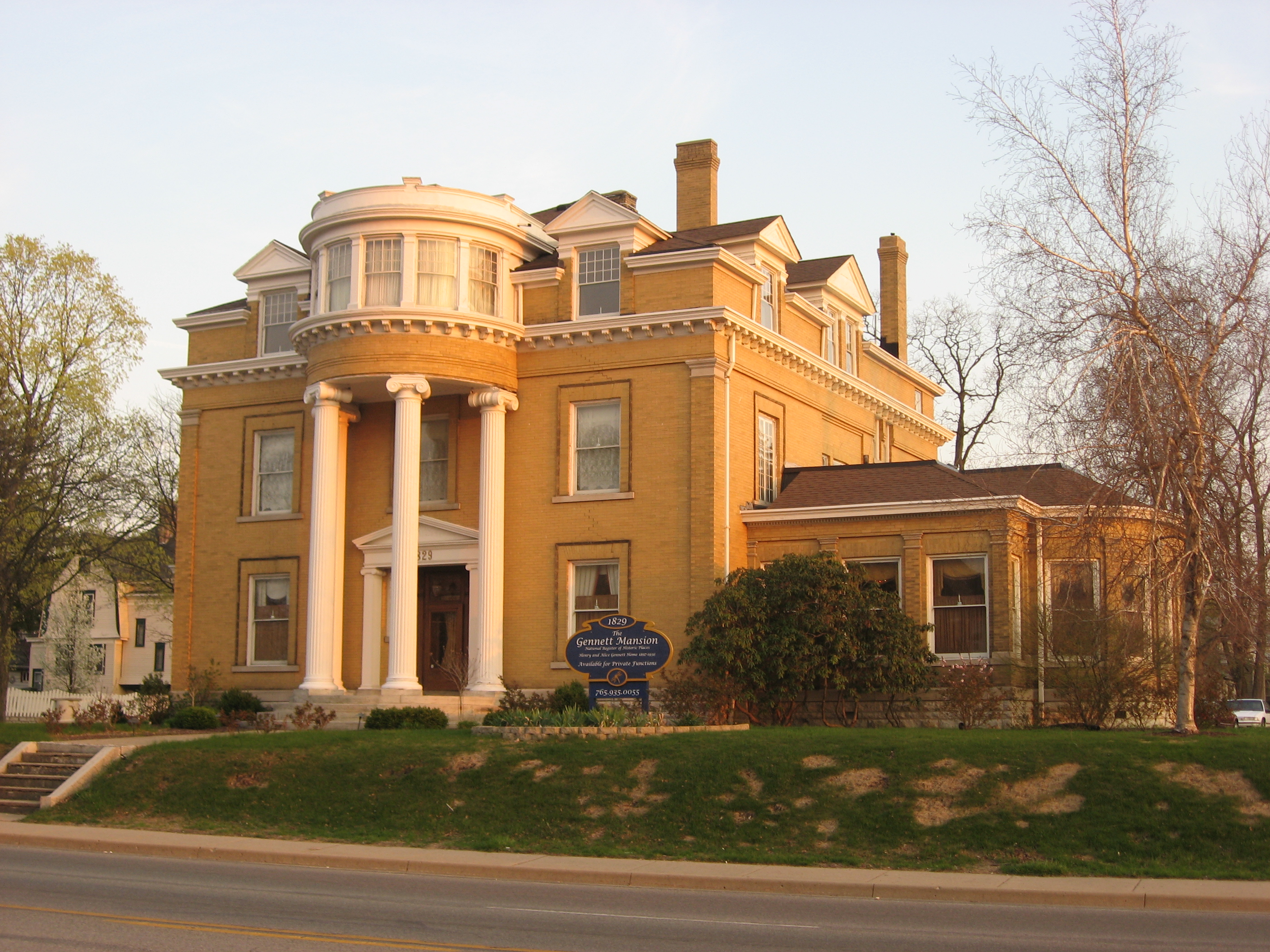 Front of the Henry and Alice Gennett House, located at 1829 E. Main Street (U.S. Route 40) in Richmond, Indiana, United States. Built in 1900, it is listed on the National Register of Historic Places, and it is part of a Register-listed historic district, the East Main Street-Glen Miller Park Historic District.